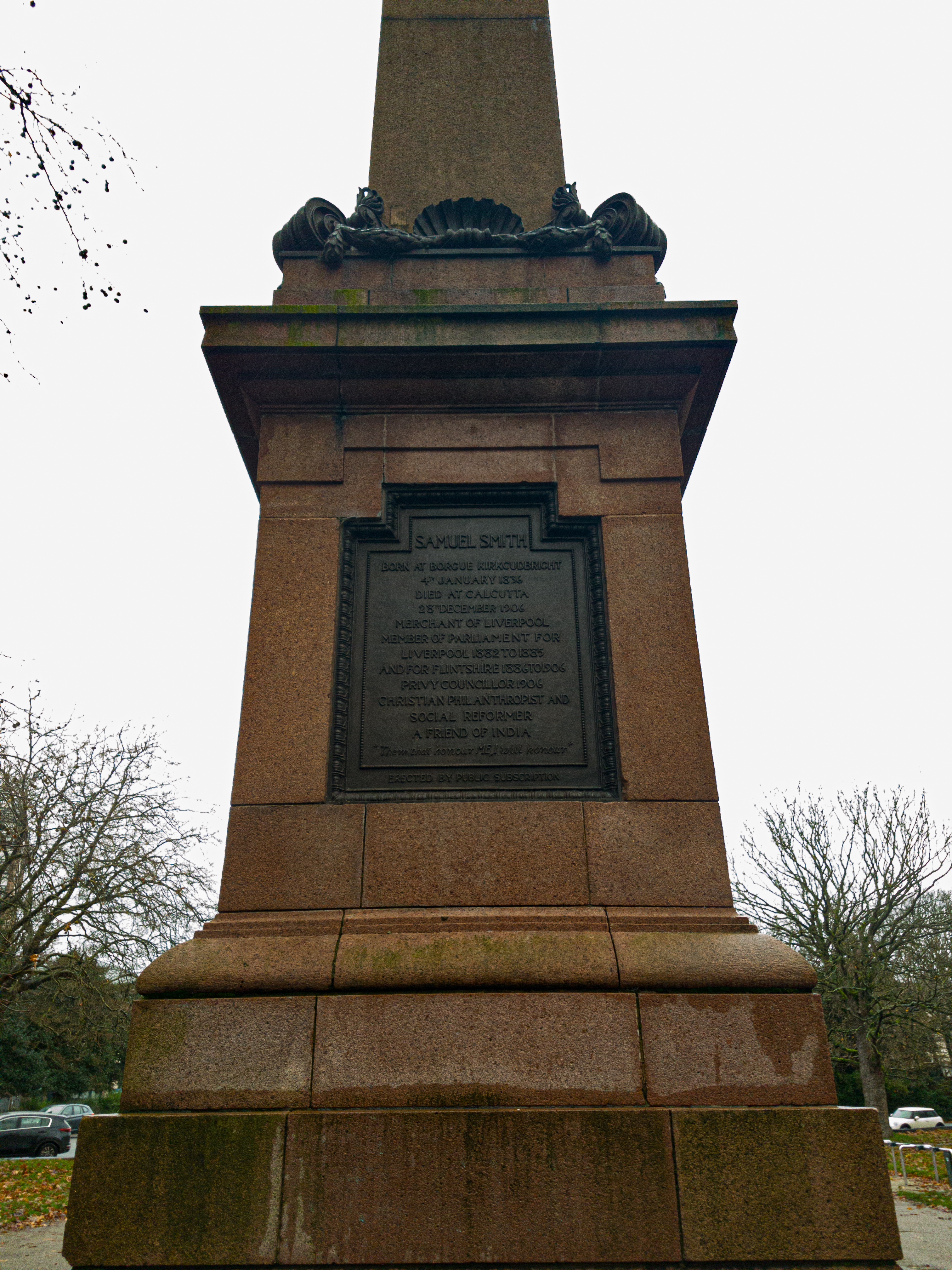 Brief inscription about the life of Samuel Smith on a pillar at Sefton Park, Liverpool.